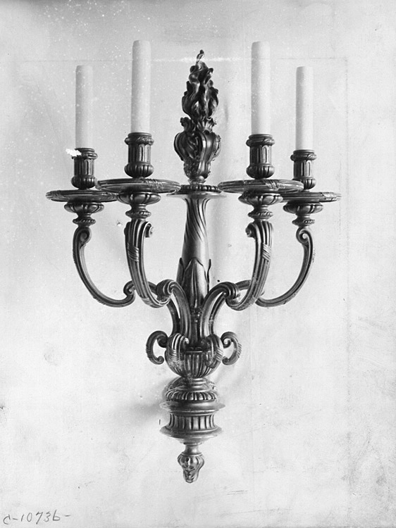 Photograph taken by Caldwell & Co. The piece was produced for Andrew Carnegie (1835-1919), which was located within his Manhattan home. Each object photographed was cataloged and was provided an account number. This chandelier account number is C010736.